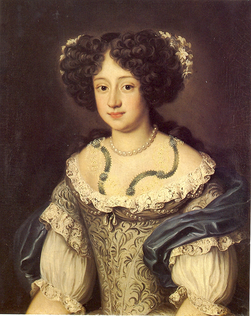 Sophie Dorthea, Princess of Hannover and Princess of Ahlden, 17th century, Sophia Dorothea of Celle, the daughter of George William, Duke of Brunswick-Luneberg and the Huguenot Eleanor d' Olbreuze. She was the wife of King Georg I. of England. The marriage produced two children, a son, named George Augustus (the later king Georg II. of England) and a daughter, Sophia Dorothea (the later Queen Sophie Dorothea of Prussia). Sophia Dorothea was a pretty and vivacious young woman, but her boorish husband ignored her, prefering to spend his time with his mistresses. She consequently embarked on an affair with the handsome and dashing Swedish Count Phillip von Konigsmark. Despite warnings to keep the liaison discreet, she foolishly flaunted her relationship with her lover, which quickly developed into a much discussed court scandal.